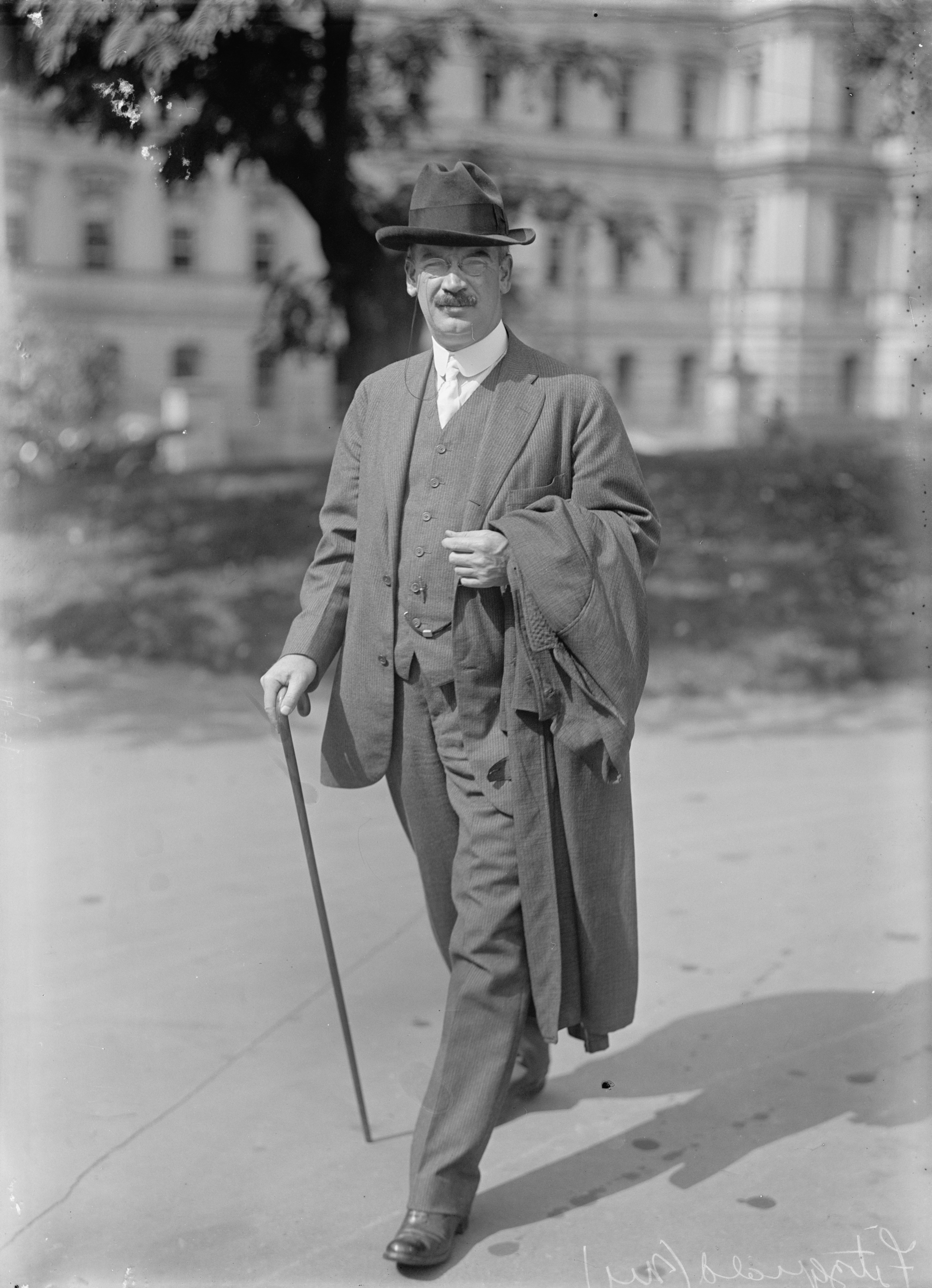 John J. Fitzgerald, Congressman from New York.